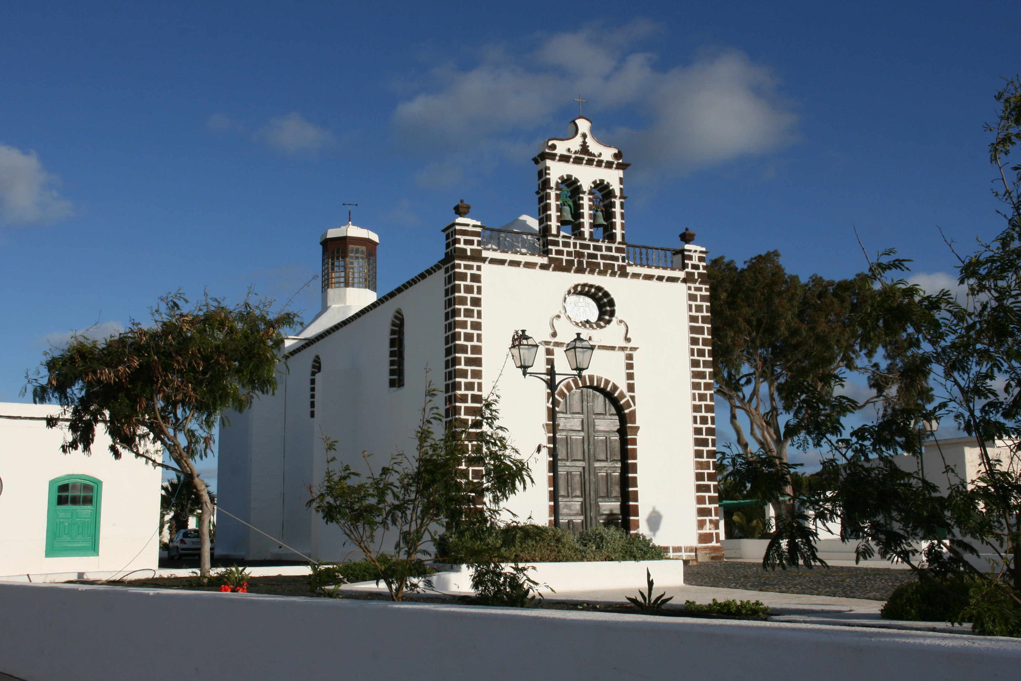 Iglesia Santo Gusto, Calle Ramirez Cerda in Guatiza, Teguise, Lanzarote, Canary Islands